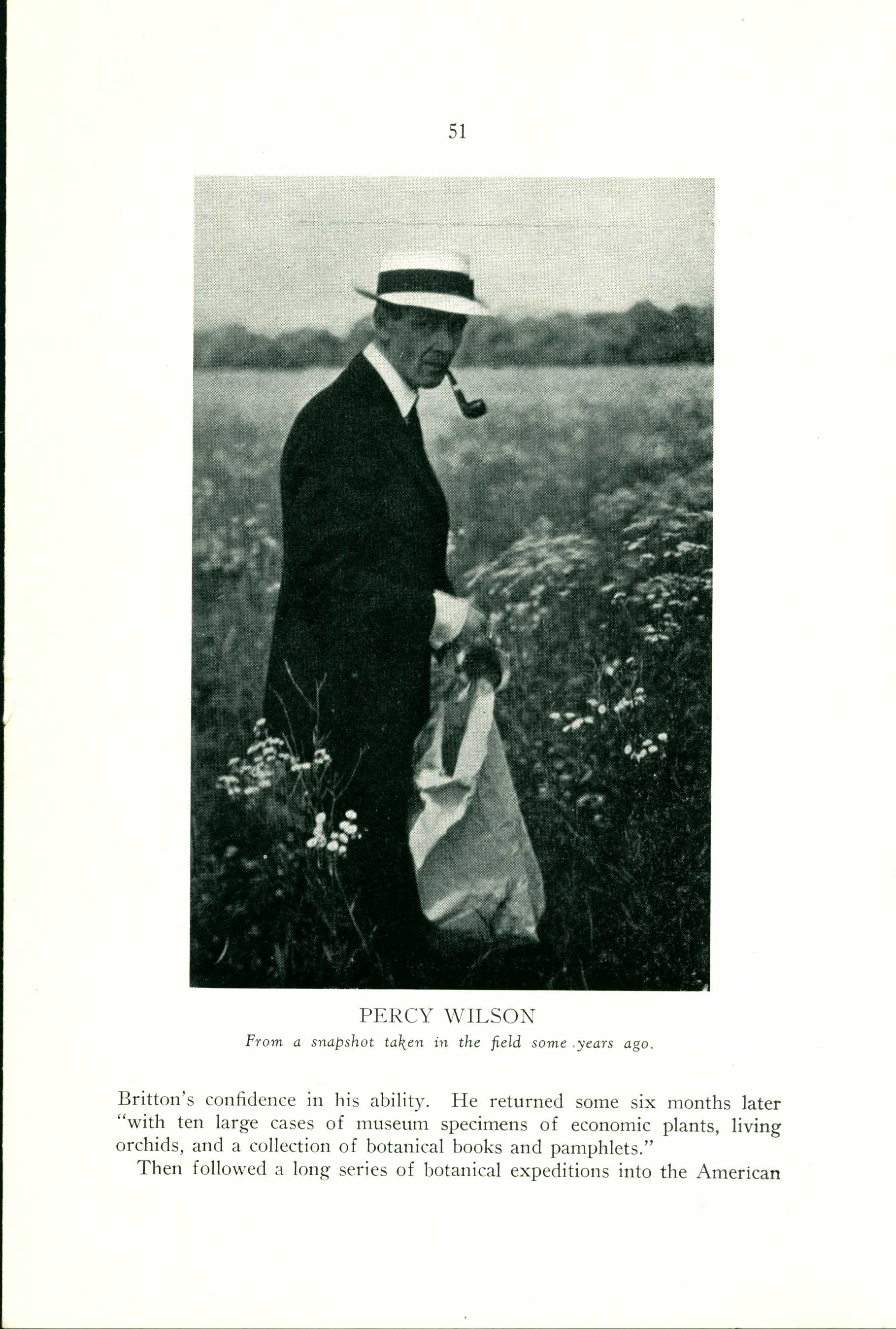 Journal of The New York Botanical Garden volume 45/ Number 531 March 1944 Page 49 Percy Wilson - An Appreciation by H.A. Gleason Photo on page 51